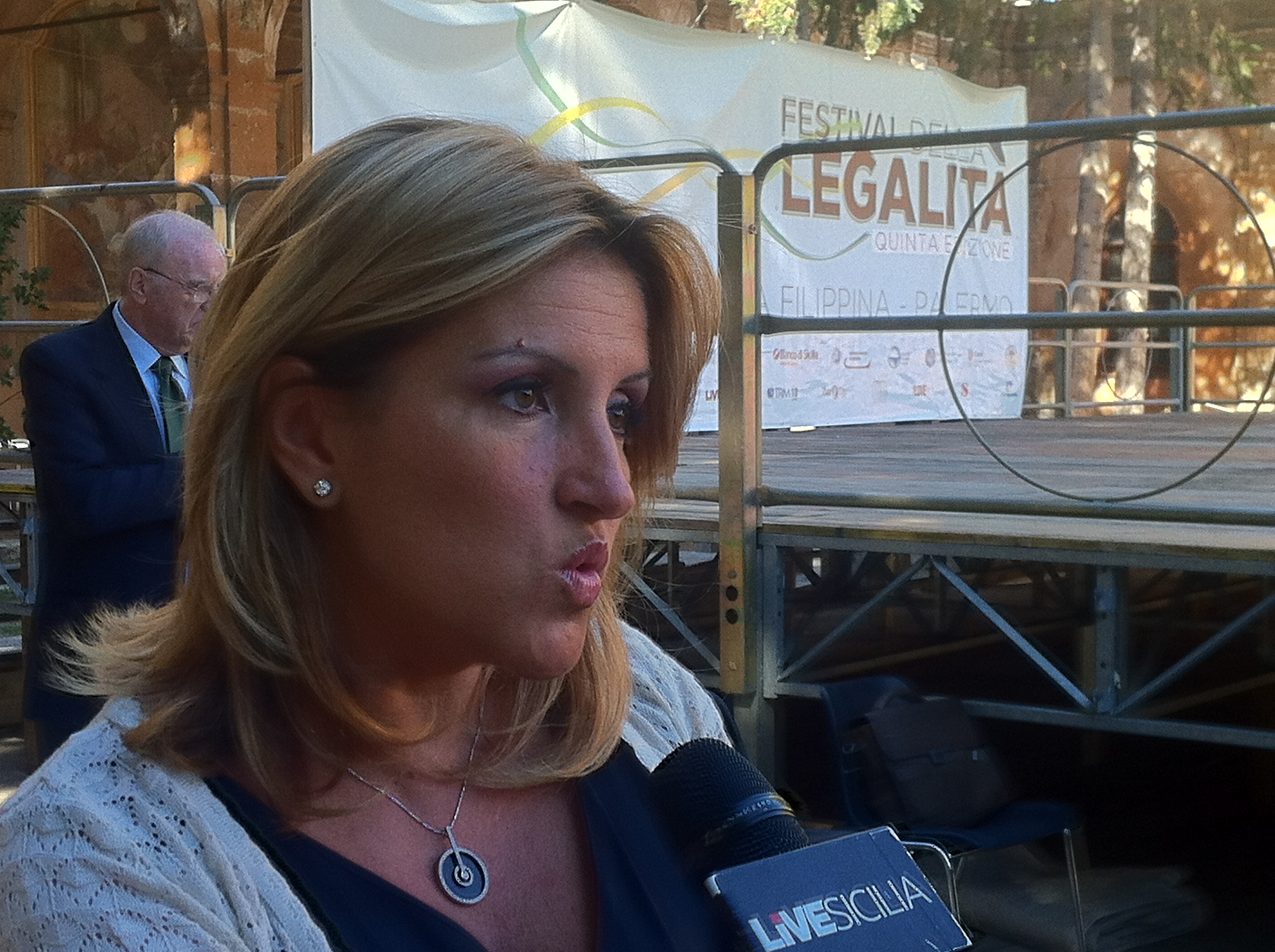 The Italian politician Sonia Alfano